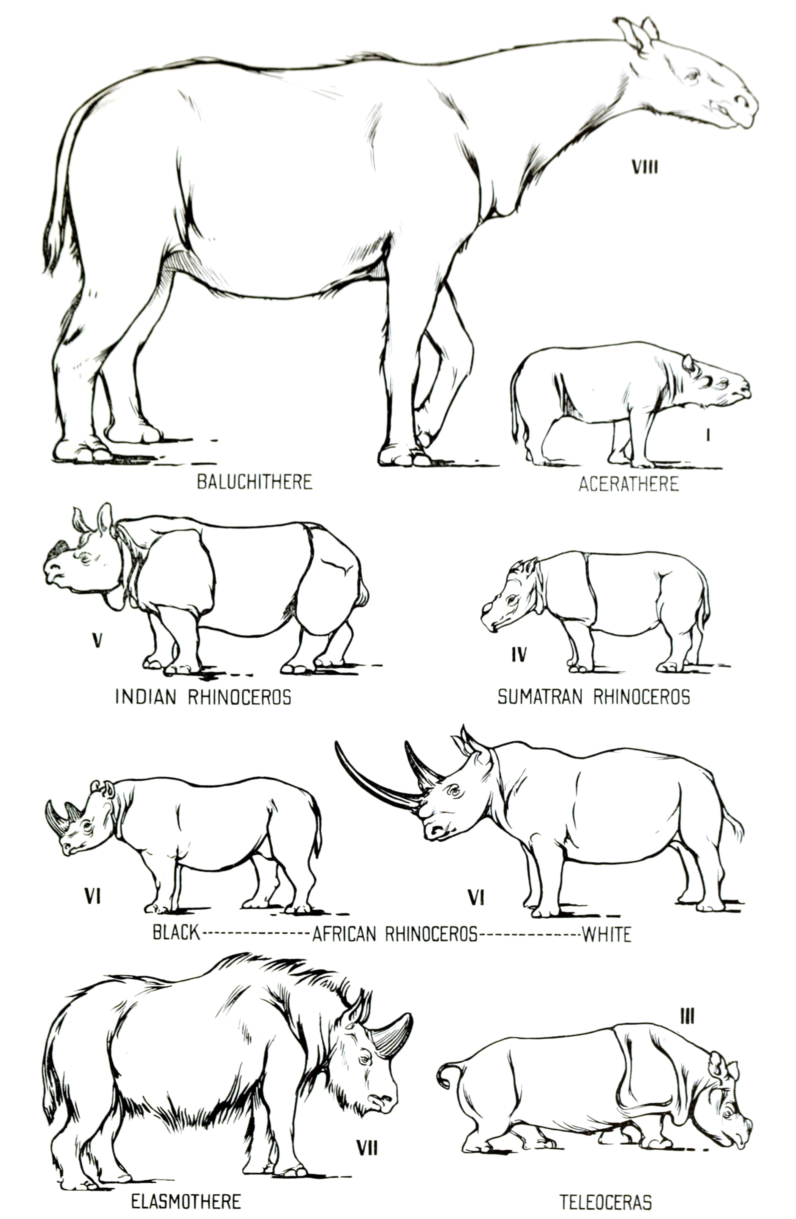 Comparison of sizes between extant and extint rhinos. First to last, Paraceratherium transouralicum, acerathere, etc.